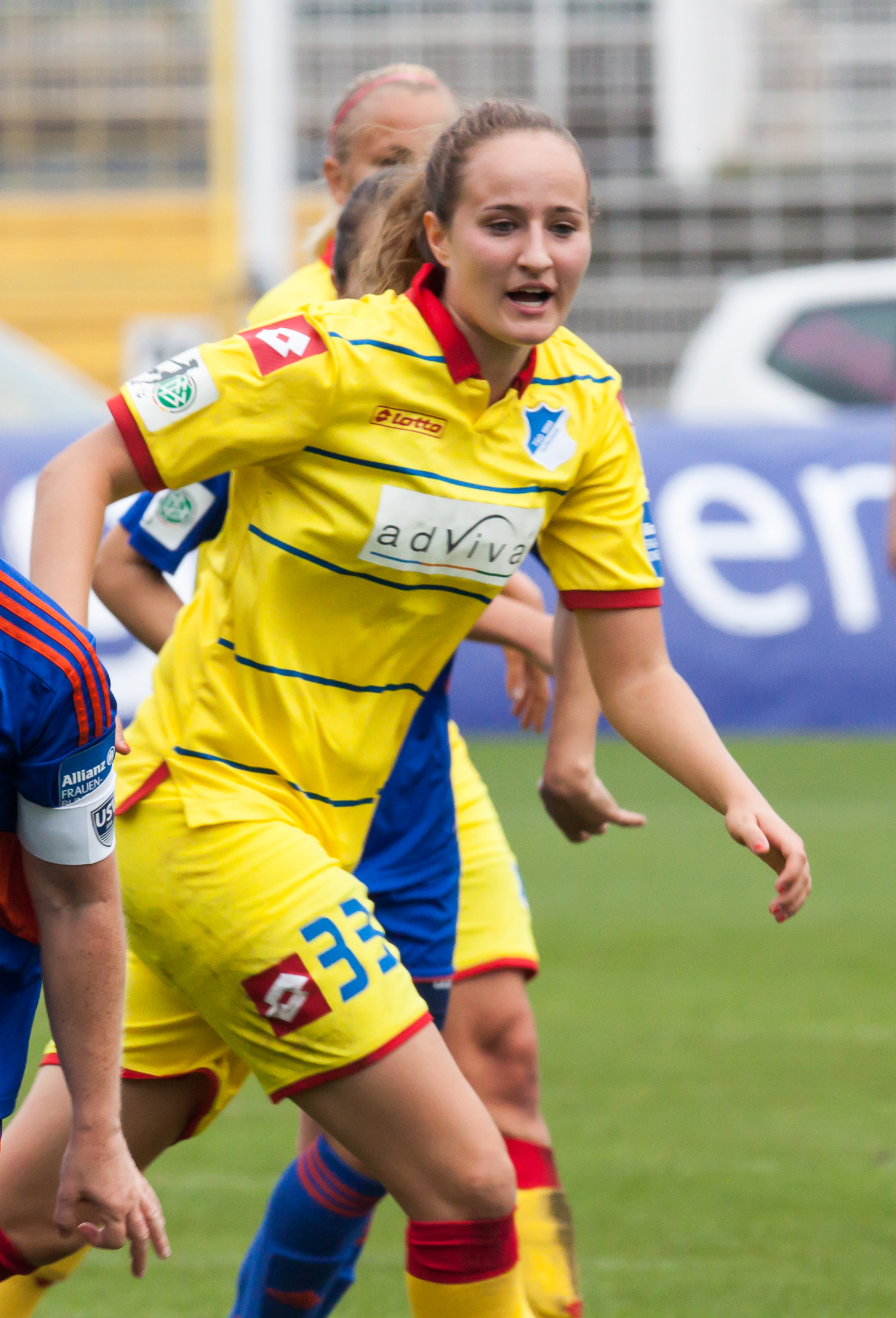 German Women Bundesliga soccer game: FF USV Jena vs. TSG 1899 Hoffenheim, 2014-10-11, at Ernst-Abbe-Sportfeld Jena.